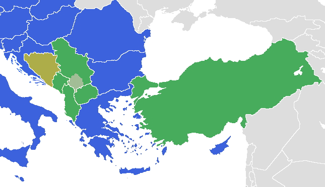 South Eastern Europe, showing status of EU enlargement in the region. European Union States Candidates Applicants SAA signed